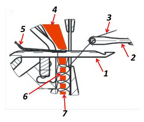 Principle of stitch bonding. - 1: compound needle, 2: yarn guide, 3: sewing yarn, 4: medium to be stitched through, 5: closing wire of the compound needle, 6: stitches, 7: stitch bonded fabric